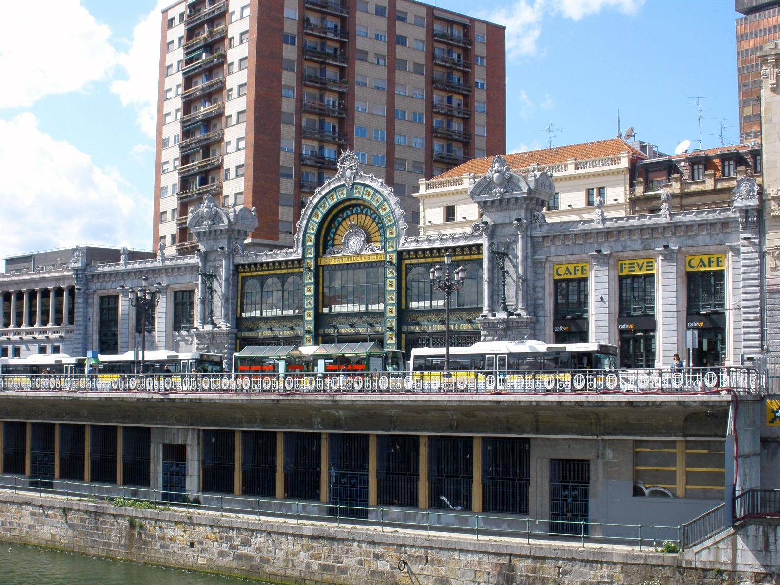 Estación de FEVE Bilbao-Concordia